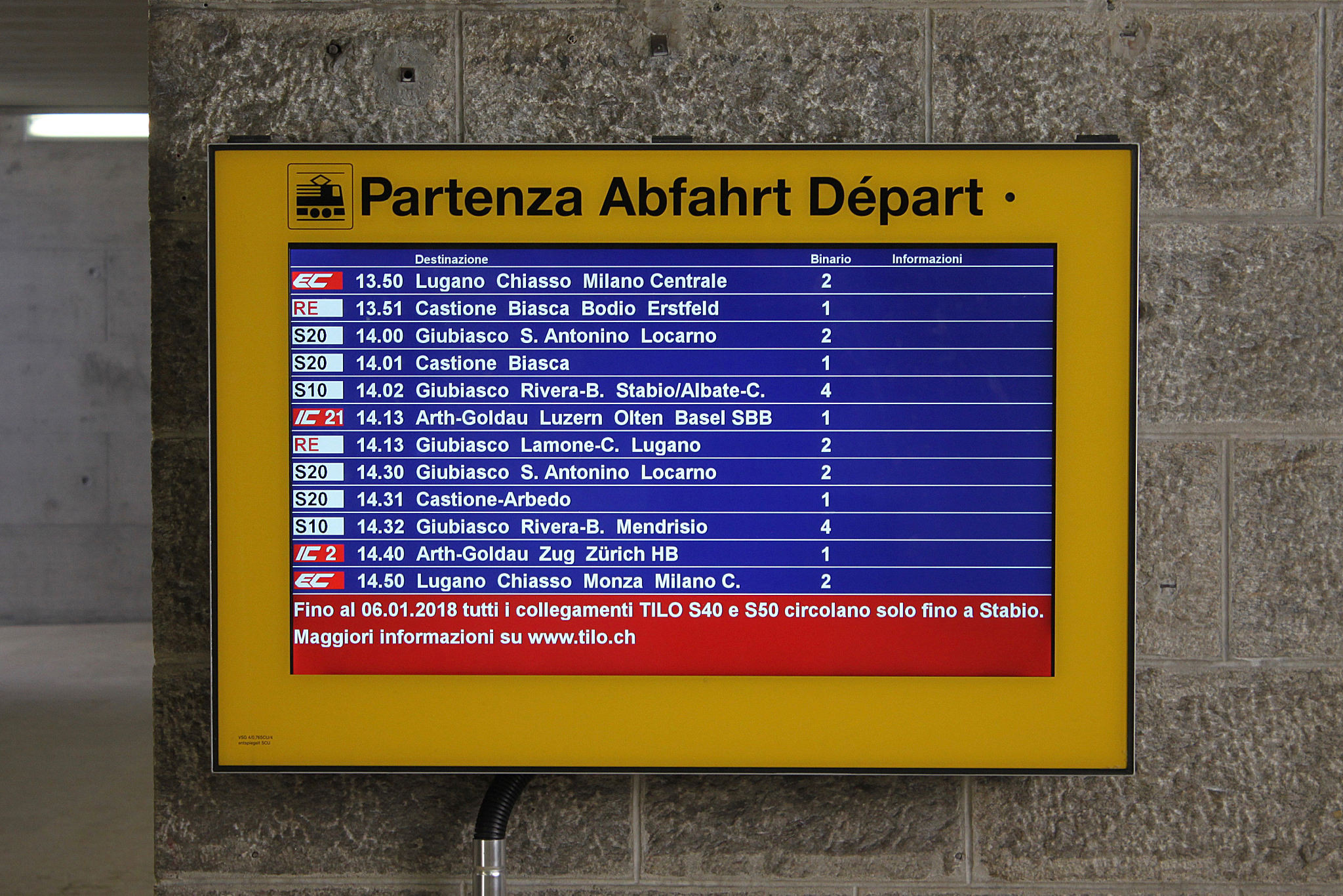 LCD display at Bellinzona railway station.